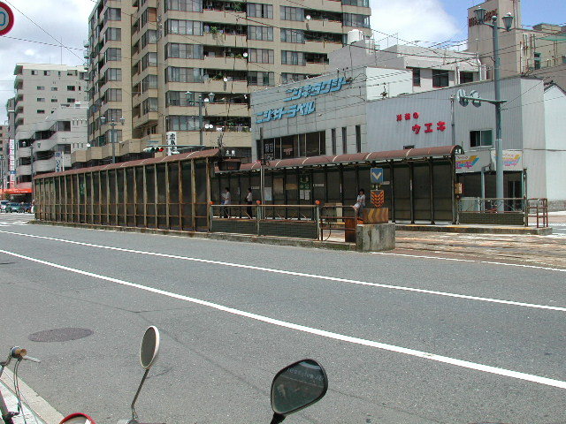 Hiroshima Electric Railway Dobashi Station（広島電鉄土橋電停）